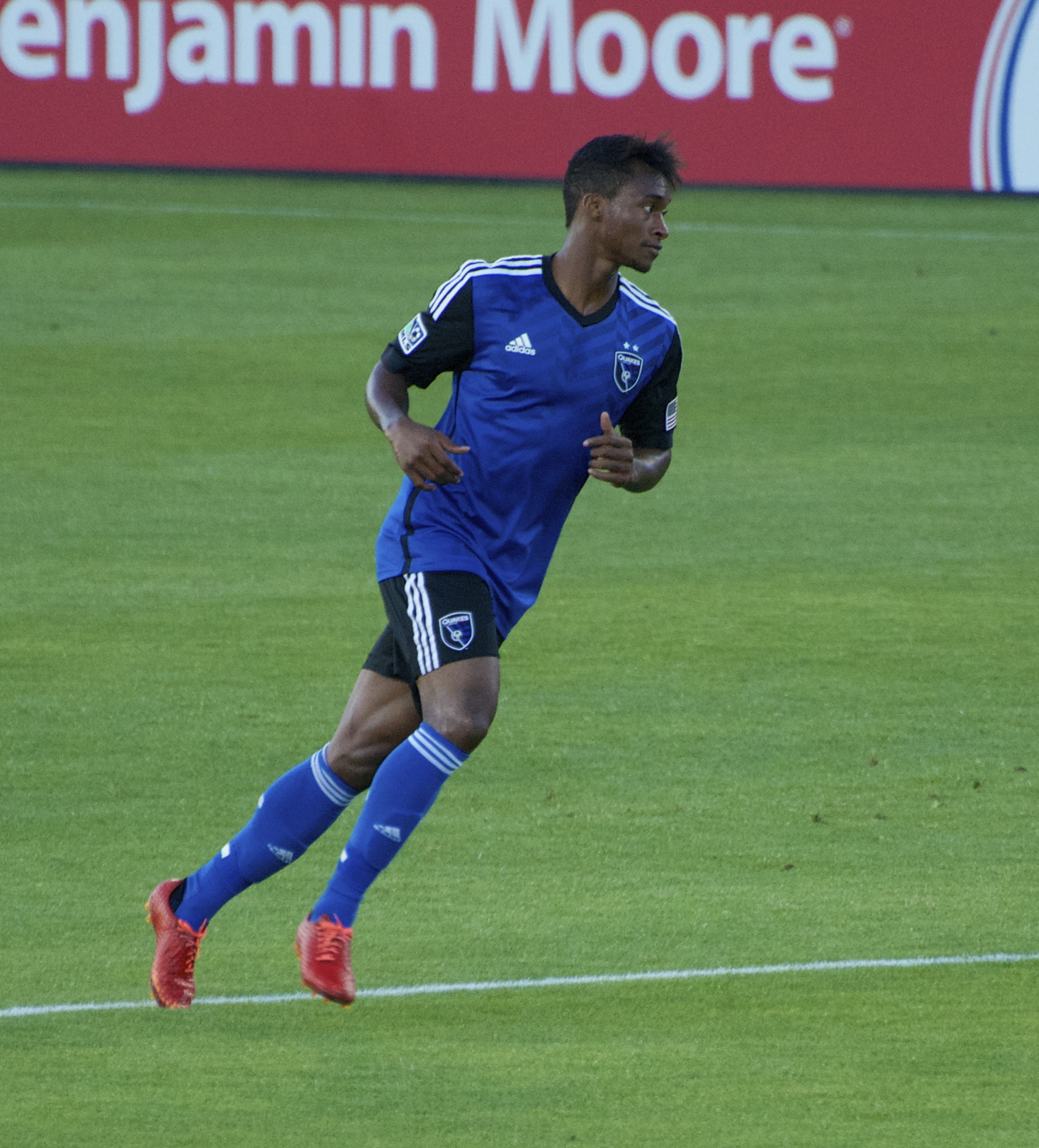 Yannick Djalo, Houston Dynamo vs San Jose Earthquakes, Buck Shaw Stadium, 25 May 2014